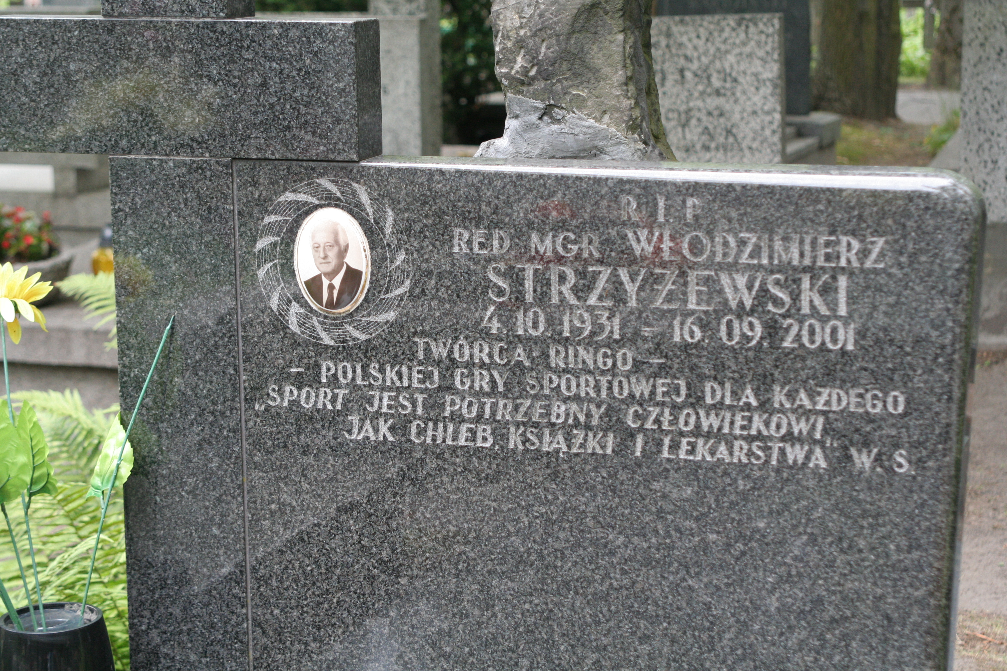 Włodzimierz Strzyżewski's tombstone at Warsaw Military Cemetery.